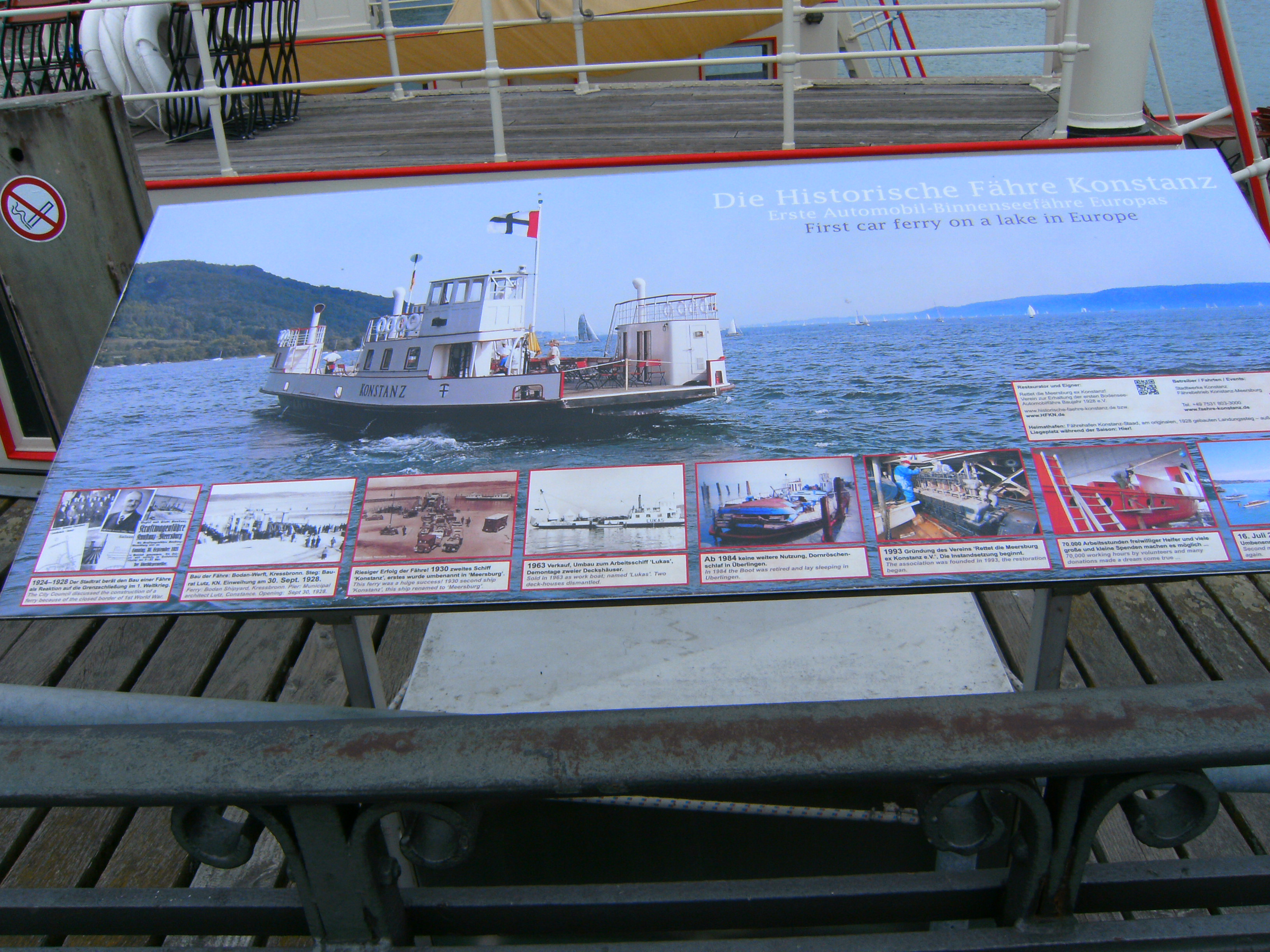 Konstanz, Germany, harbour: Informations board about historical ferry Konstanz (ship, 1928).